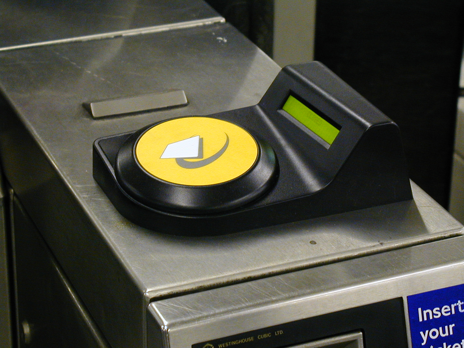 An Oyster Card reader (a Cubic Tri-Reader) mounted on a London Underground ticket barrier.